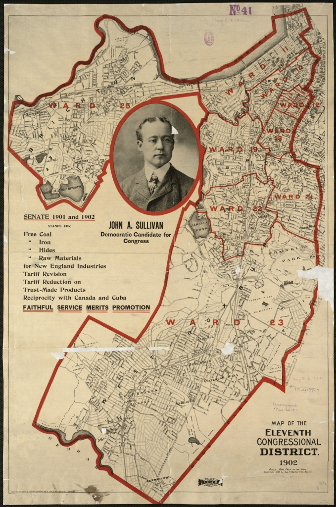 Zoom into this map at . Author: Geo. H. Walker & Co. Publisher: Geo. H. Walker & Co. Date: 1902 Location: Boston (Mass.) Dimension 70x46cm Scale: 1:19,200 Call Number: G3764.B6 1902 .G4x